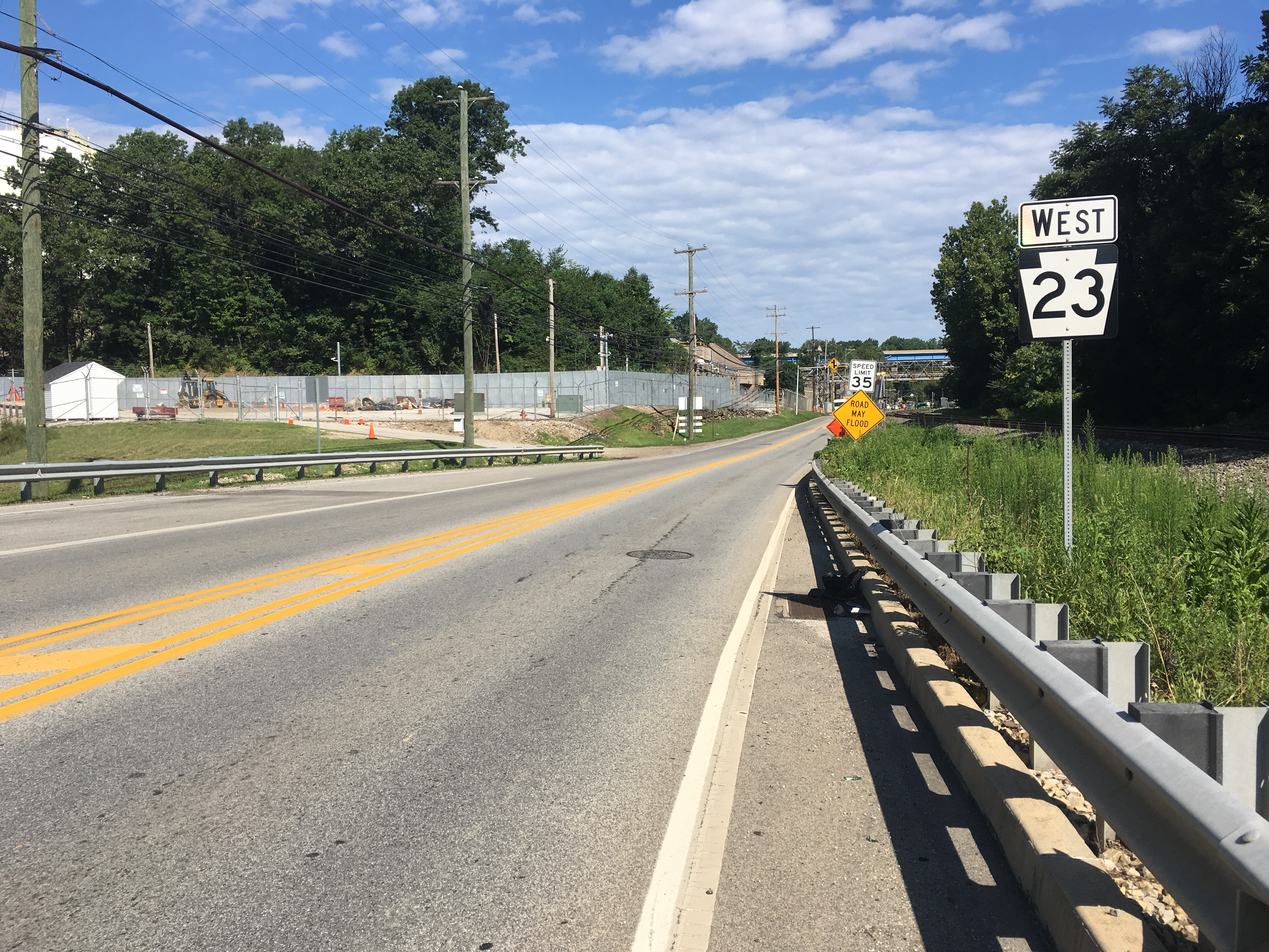 Westbound Pennsylvania Route 23 (Front Street) past the intersection with Balligomingo Road in West Conshohocken, Pennsylvania.